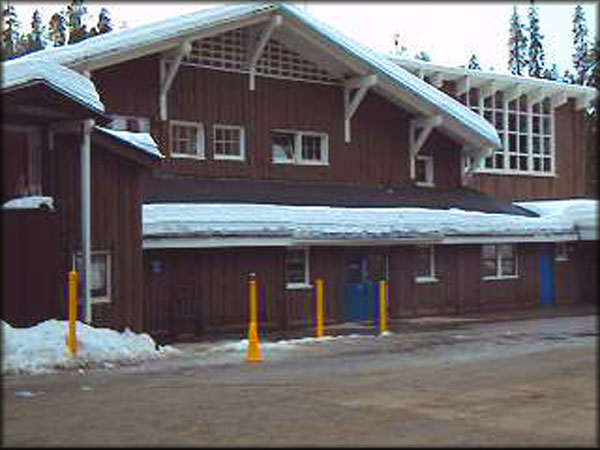 Historic Badger Pass Ski Lodge - January 2010